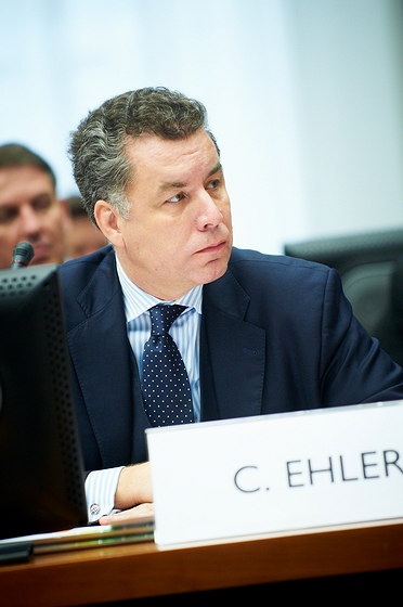 Christian Ehler, Member of the Subcommittee on Security and Defence, European Parliament